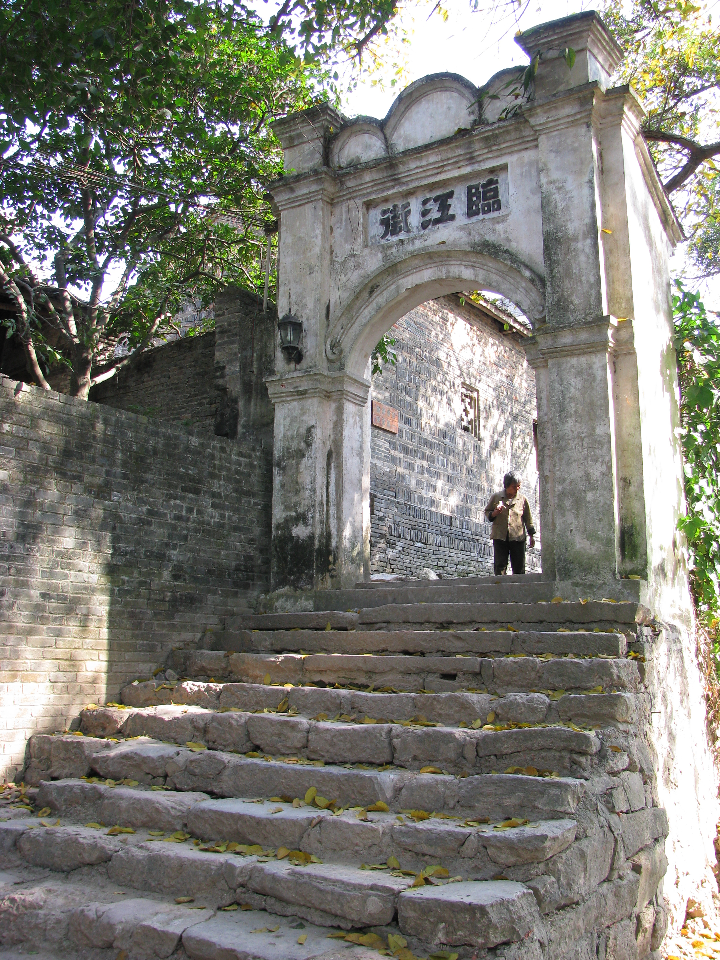 One of the old gates on the river side of the city wall in Yangmei Ancient Town, Guangxi, China. On the inside of this gate are red marks with years painted, indicating high tides (and obvious flooding). On the gate there are three characters "临江街" which means "Riverside Street" or "Overlooking-Water Street". Photo taken with a Canon PowerShot SX100 IS digital camera.